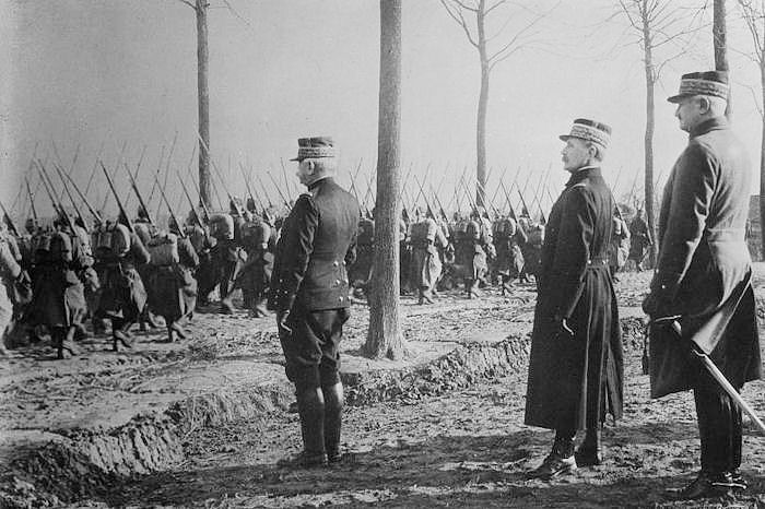 Joseph Joffre watches French troops marching off to battle. Behind him are Ferdinand Foch and Augustin Dubail